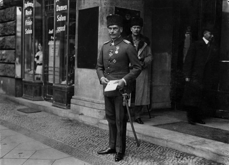 Otto Liman von Sanders Otto Liman von Sanders Information added by Wikimedia users.